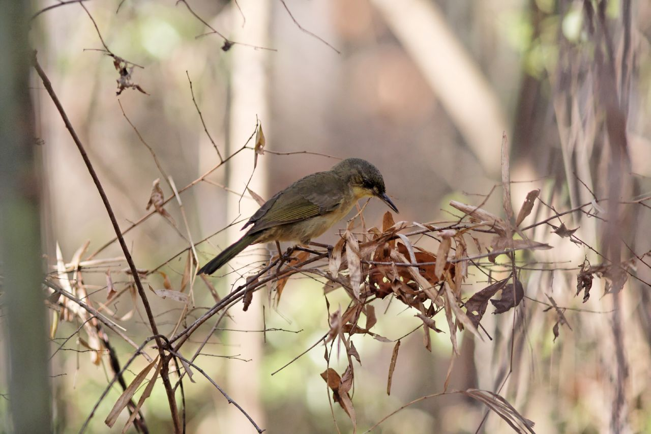 Long-billed Bernieria, Kirindy, Madagascar, 2005.